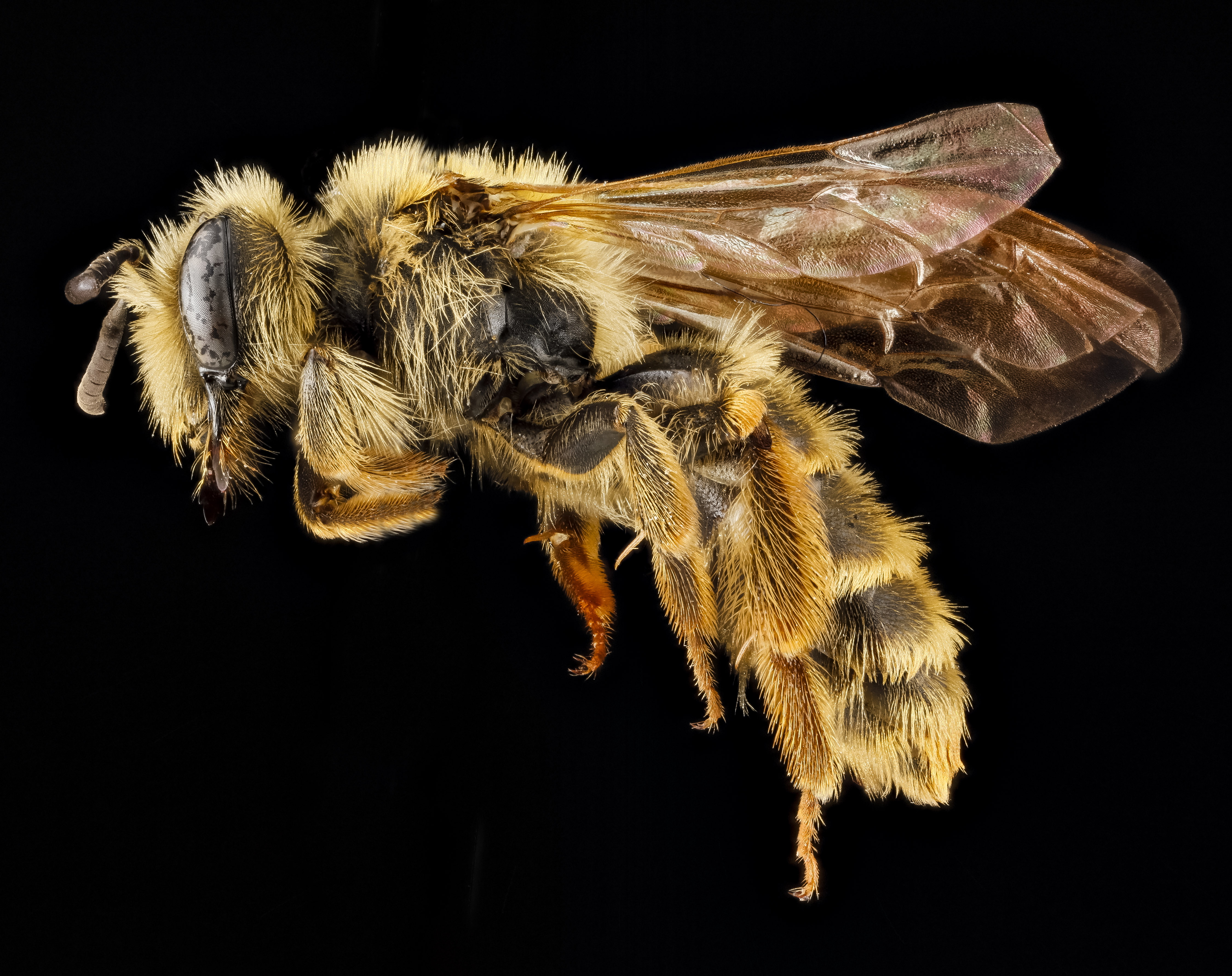 Andrena astragali, female, Badlands National Park, SD